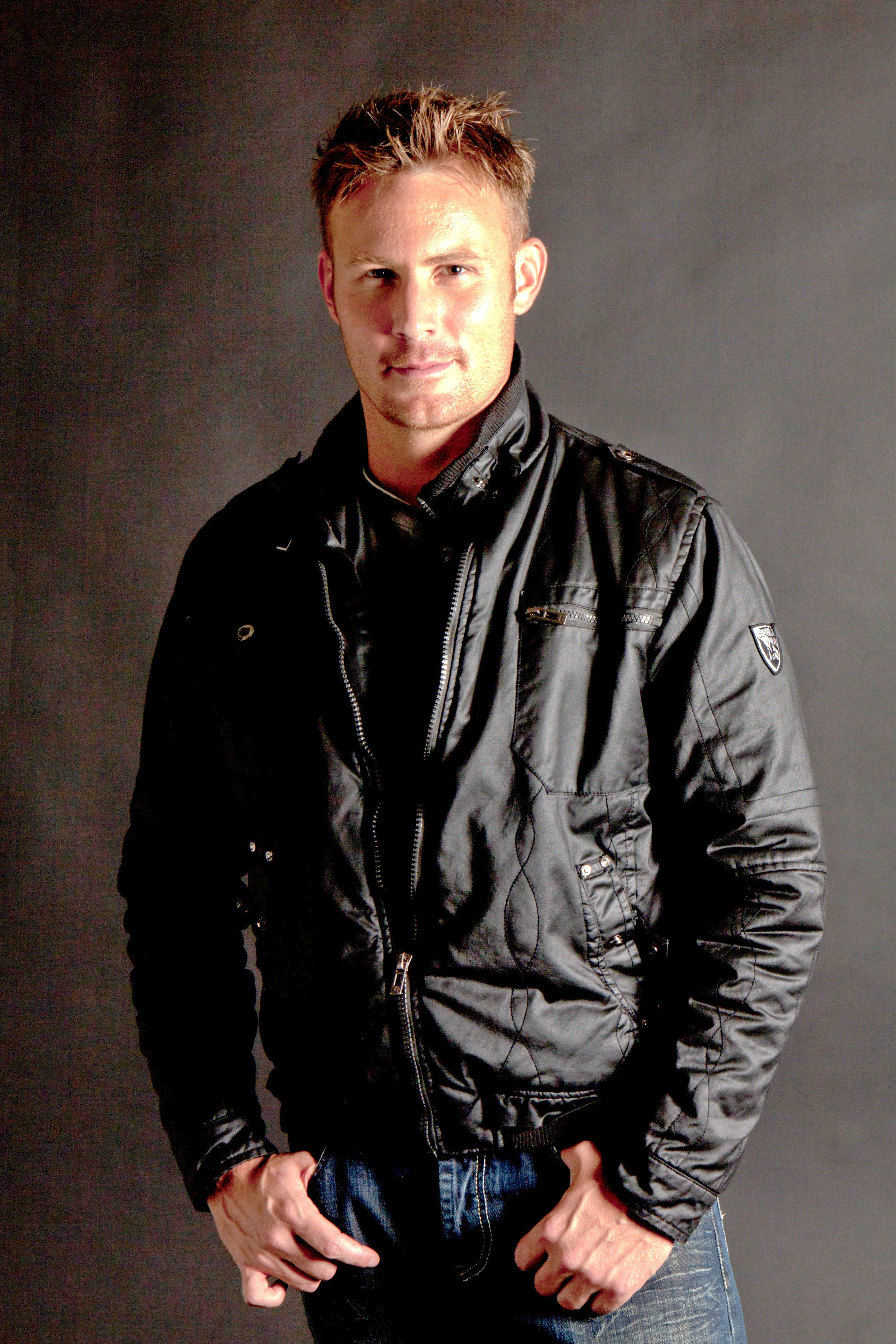 Jason Hartman in 2012